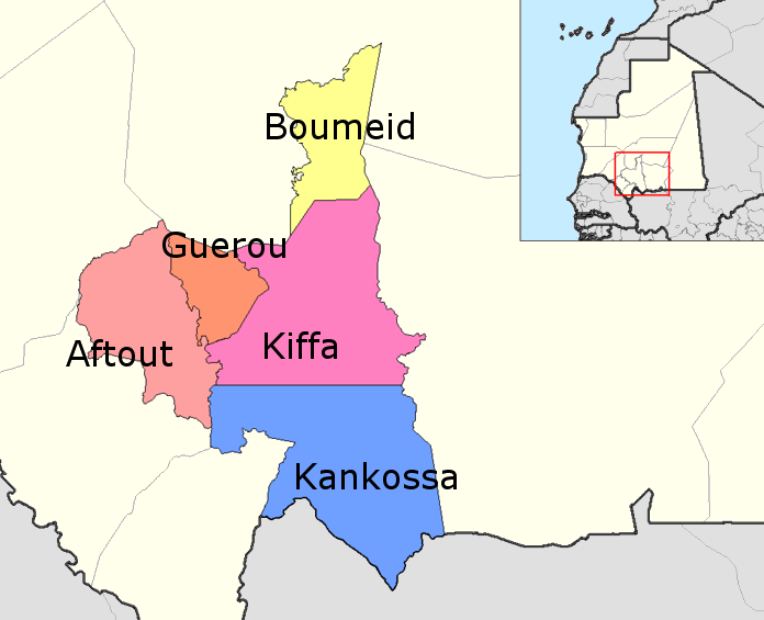 User:McTrixie enlarged the typeface of the names on the map using GIMP, the original work is: File:Assaba departments.png - Map of the departments of Assaba region of Mauritania, created by Rarelibra 20:06, 28 September 2006 (UTC) for public domain use, using MapInfo Professional v8.5 and various mapping resources.